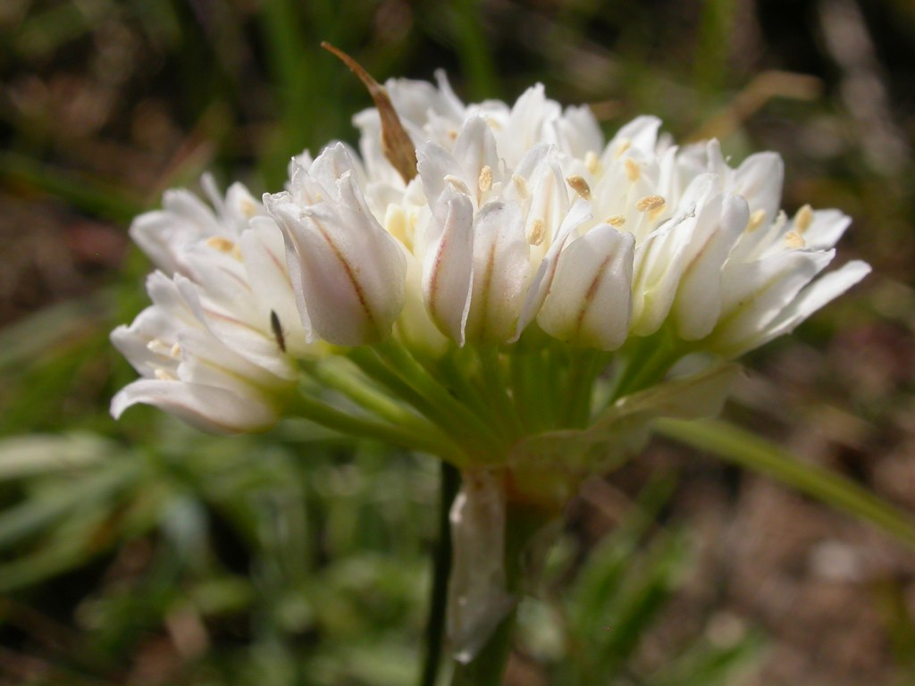 The flowering head of textile onion, Allium textile, has more congested flowers and remains erect compared to the later flowering nodding onion, Allium cernuum.